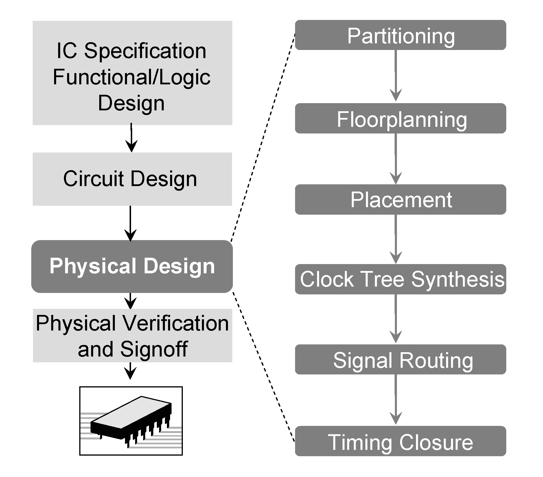 Major steps in VLSI physical design